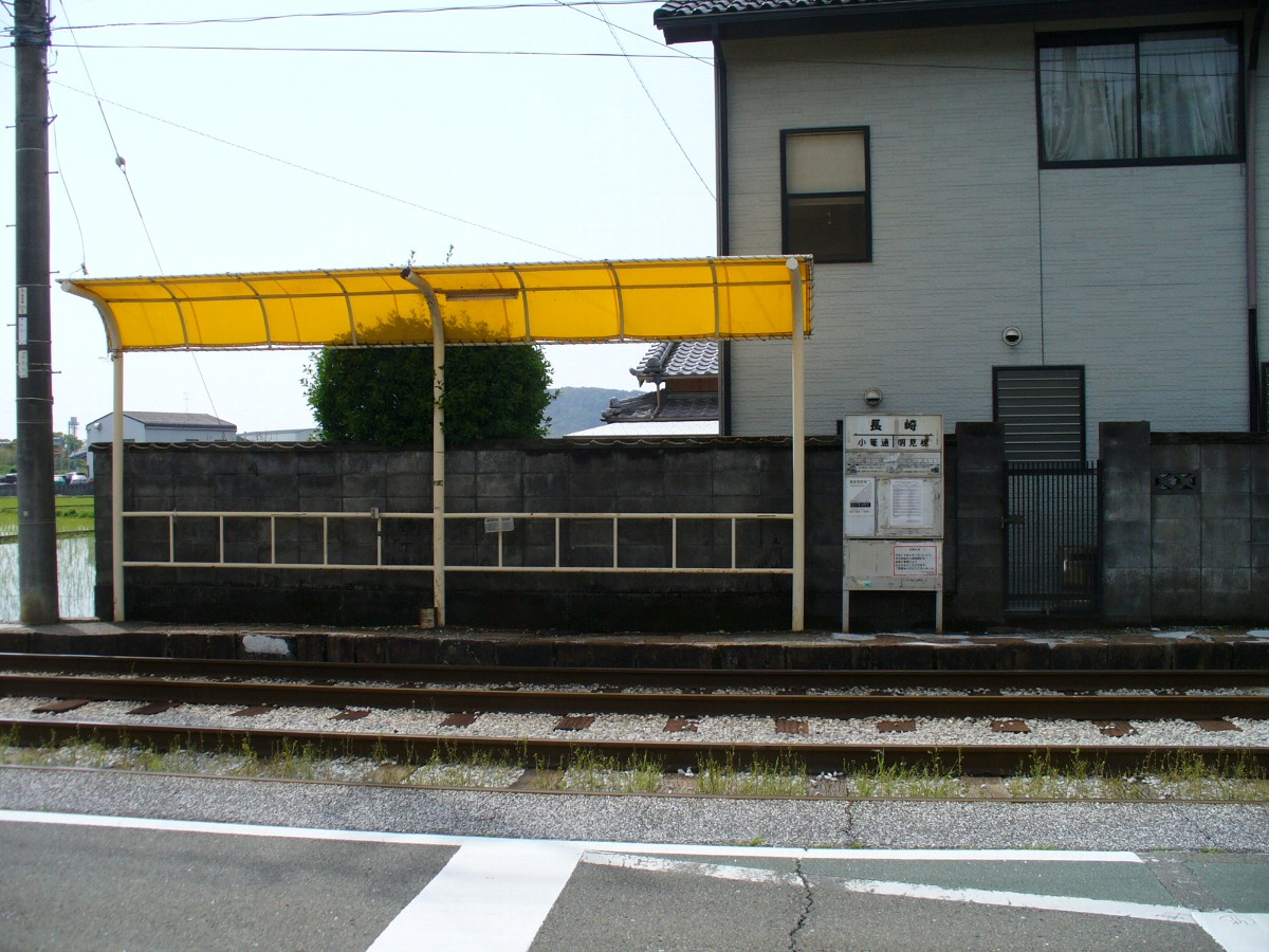 Nagasaki tramstop of Tosa Electric Railway.